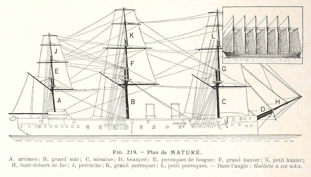 Plan de Mature a, artimon; b, grand mat; c, misaine; c, beaupre; e, perroquet de fougue; f, grand hunier; g, petit hunier; h, bout-dehors de foe; j, perruche; k, grand perroquet; l, petit perroquet. Dans l'angle : Goelette a six mais Subject: Masts and rigging, Naval architecture, Sails Tag: Vessels